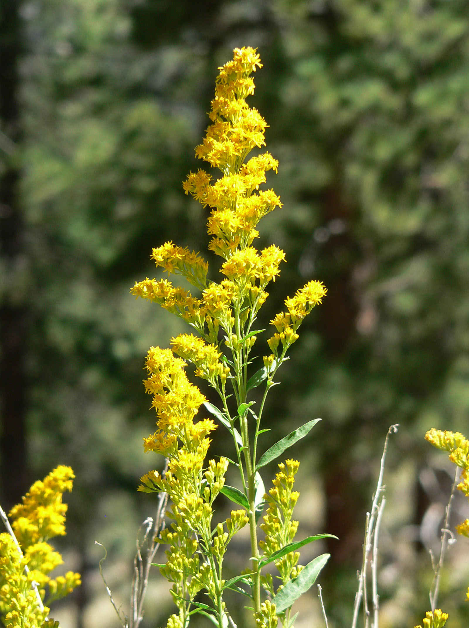 Solidago velutina subsp. sparsiflora in Rainbow Canyon just above the Rainbow Subdivision, Kyle Canyon, Spring Mountains, southern Nevada (elev. about 2300 m)